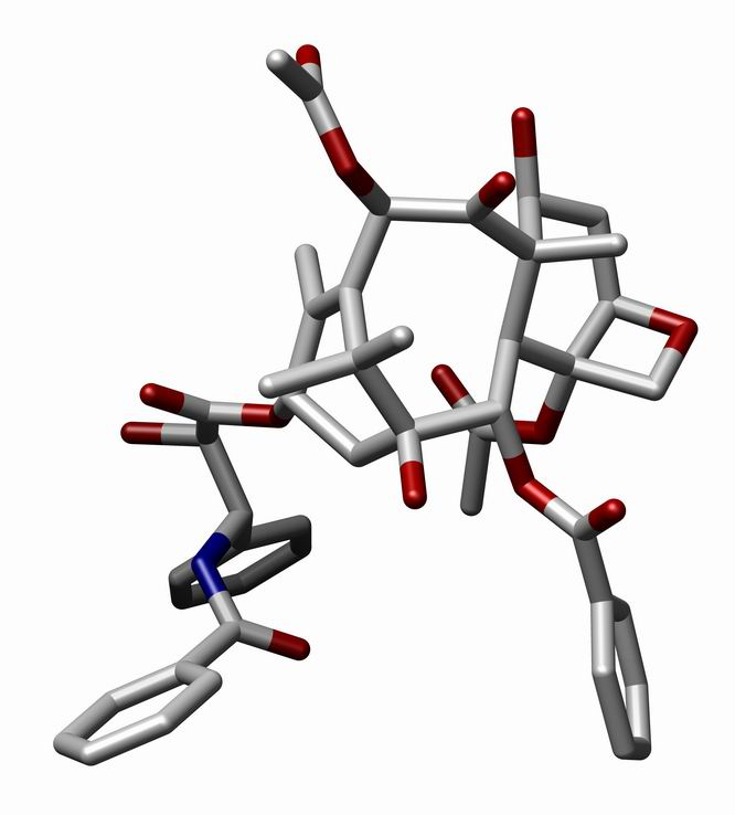 This is a picture generated from a crystal structure data reported by J. Löwe, H. Li, K. H. Downing and E. Nogales in the Journal of Molecular Biology, 2001, Volume 313, pages 1045-1057. It shows a paclitaxel (Taxol®) molecule. It was made by myself and is free to be used by all.